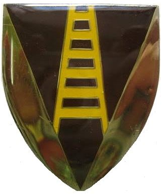 SADF era Jacobsdal Commando emblem